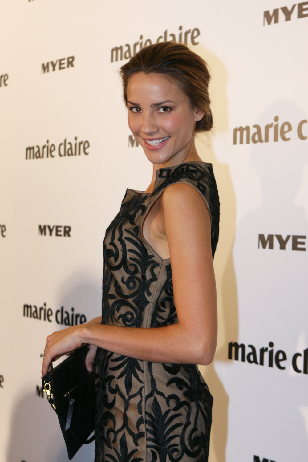 Rachael Finch on the red carpet of the 2012 Prix de marie claire Beauty Awards.